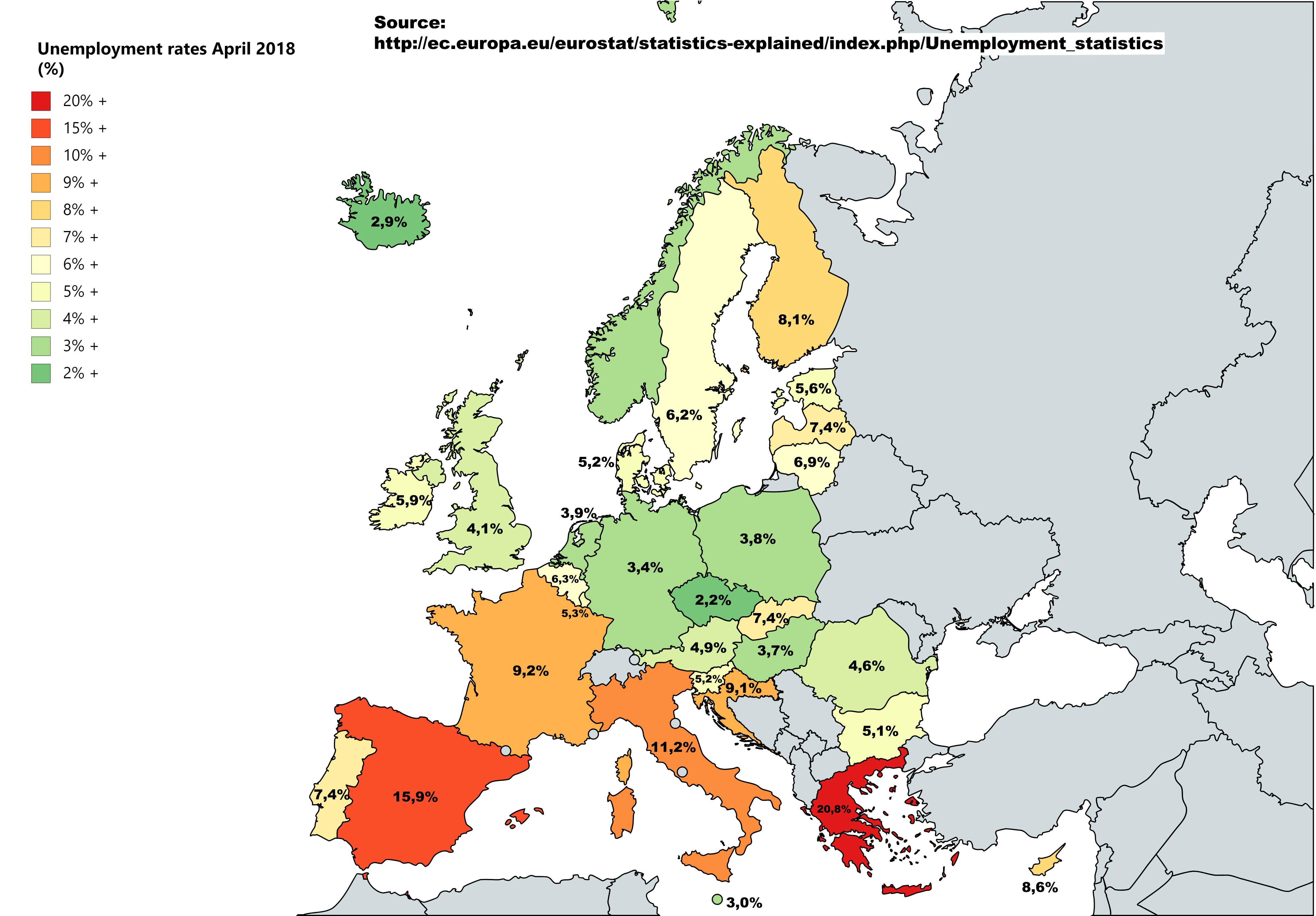 Unemployment rates in Europe - April 2018